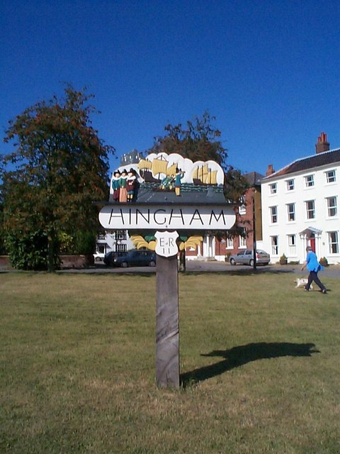 Hingham town sign. Hingham is a beautiful small market town with links with Hingham MA in the US due to emigration.